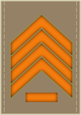 Saudi Arabian military ranks (First Class Sergeant). مساعد